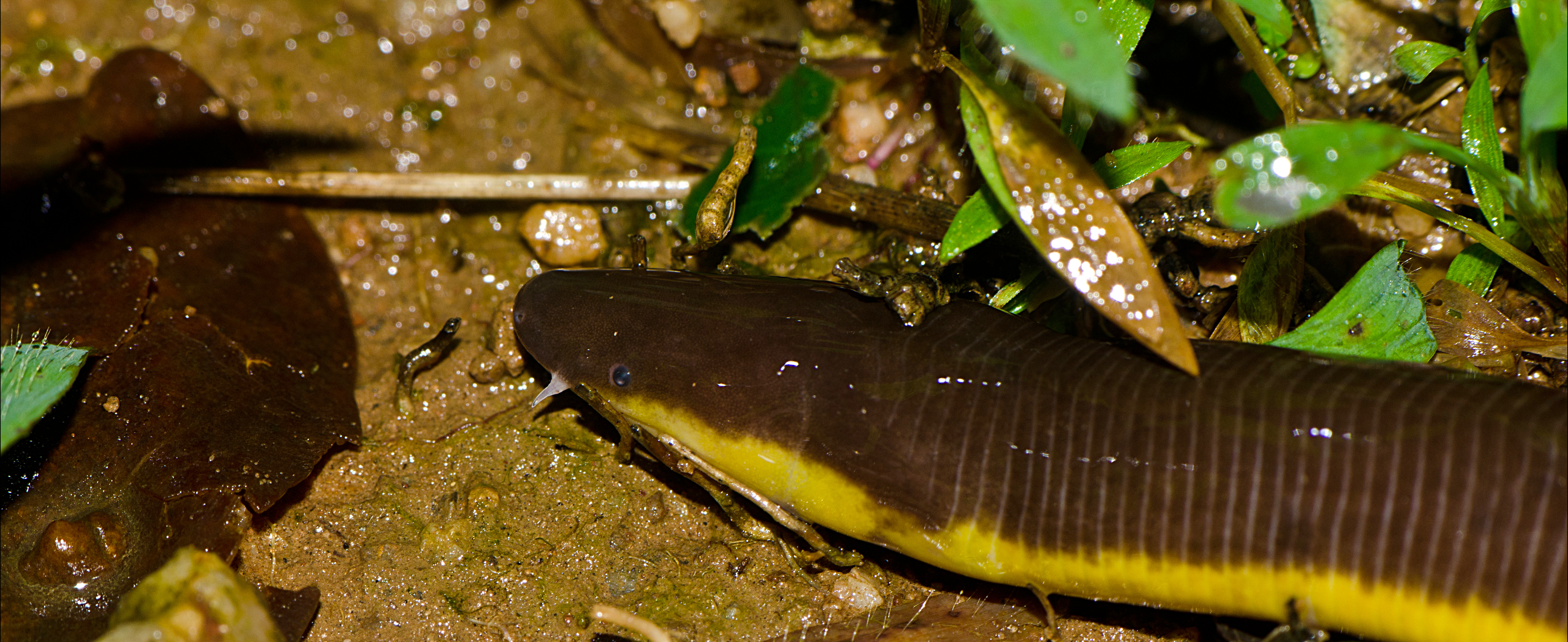 The Chorla giant striped caecilian, Ichthyophis davidi,recorded from Kuveshi ,Karnataka.